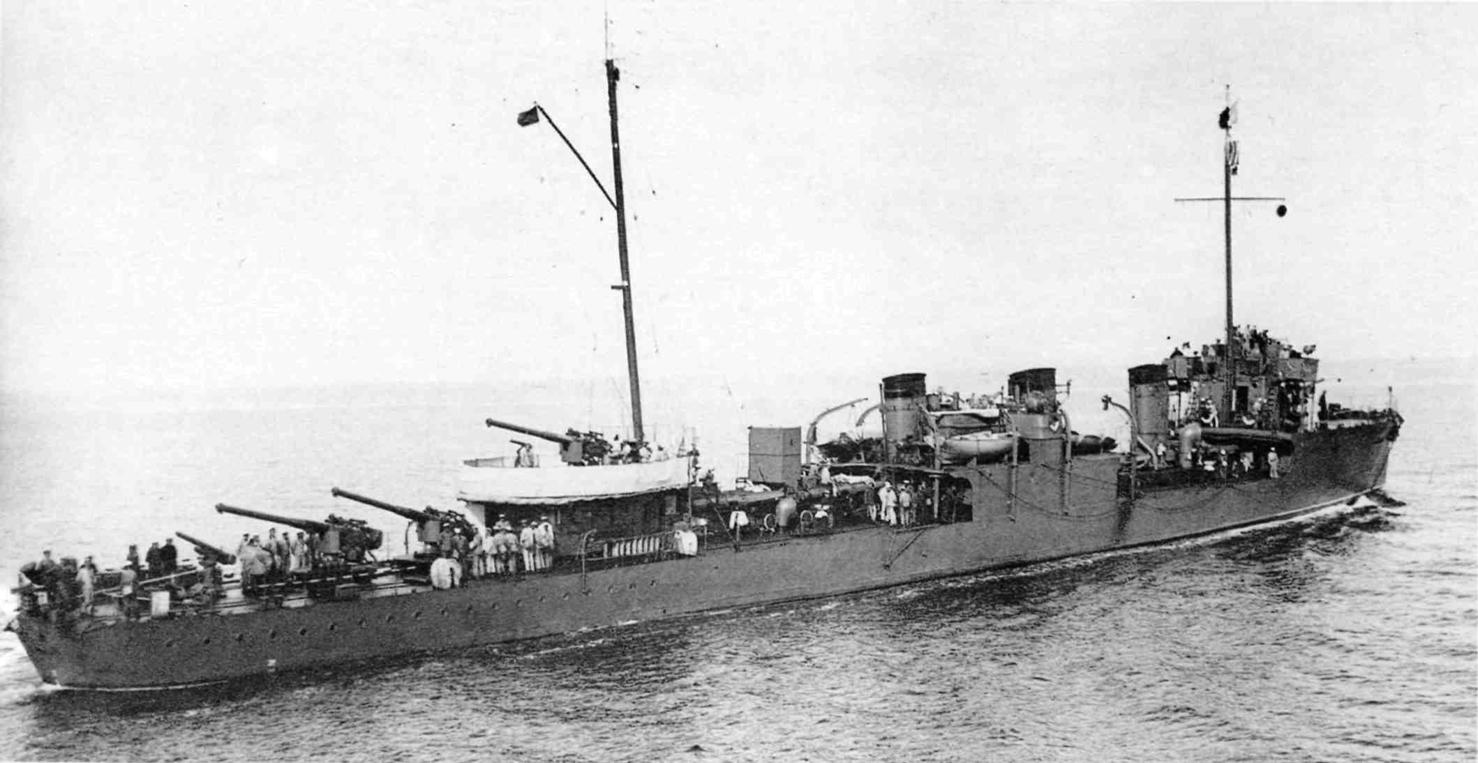 Soviet destroyer Shaumian.